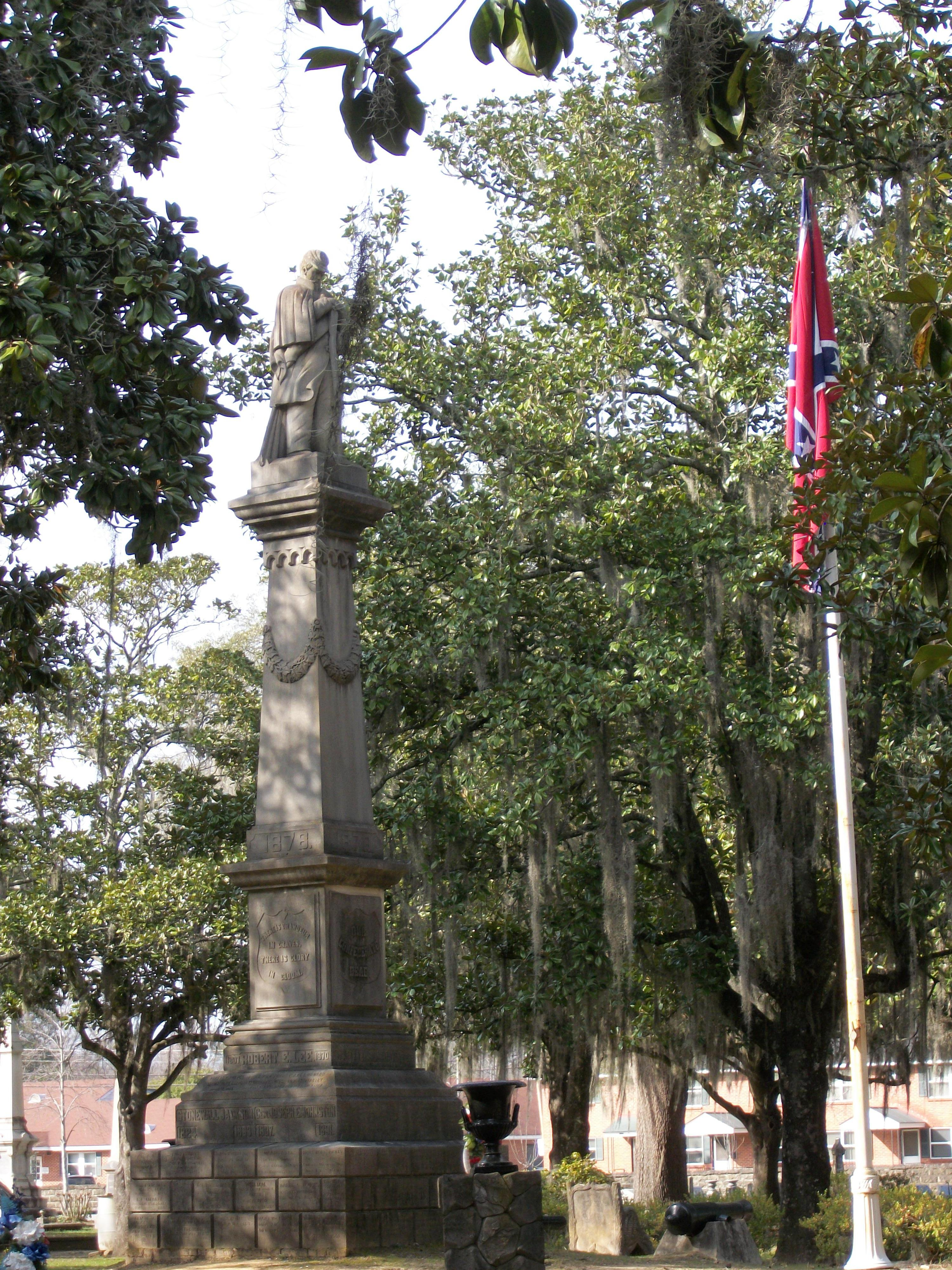 Nathan Bedford Forrest Memorial, Confederate, Selma, Alabama, Alabama History, Live Oak Cemetary